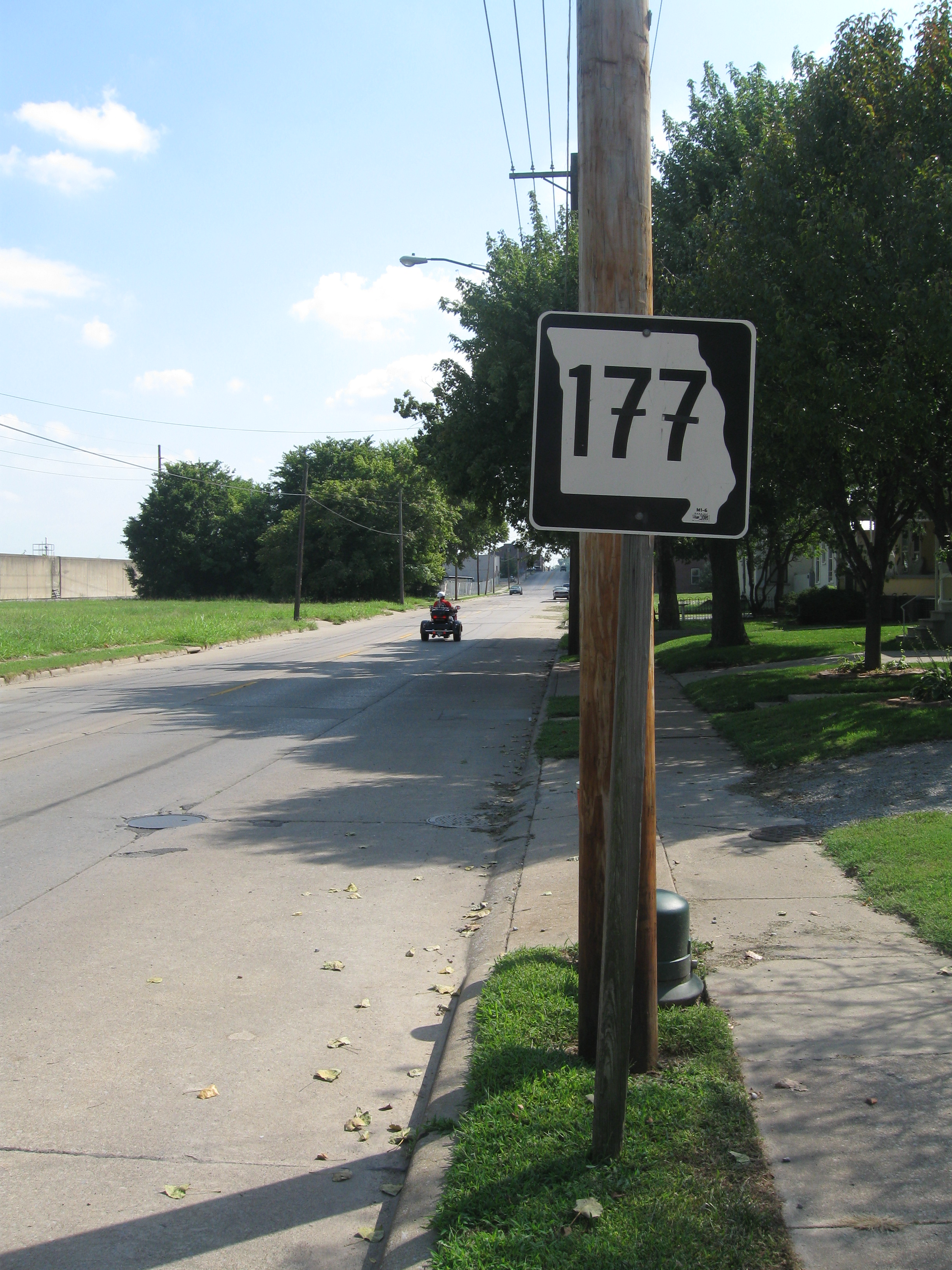 Missouri Route 177 as it appears in the northeastern part of Cape Girardeau, Missouri, looking south; Cape's flood wall is visible in the extreme left side of this shot. Note the "euro-style" 7s on the sign.